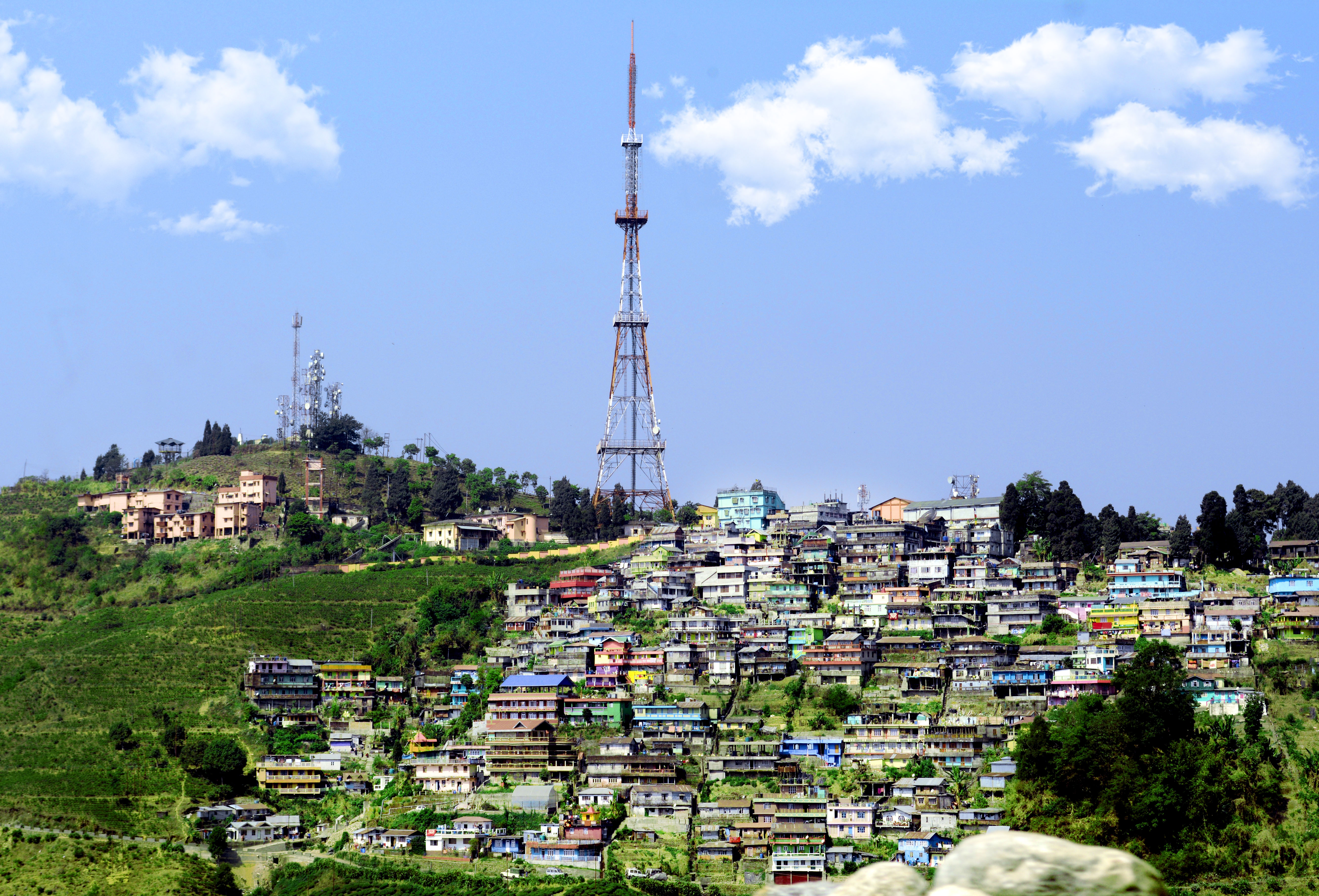 Kurseong city